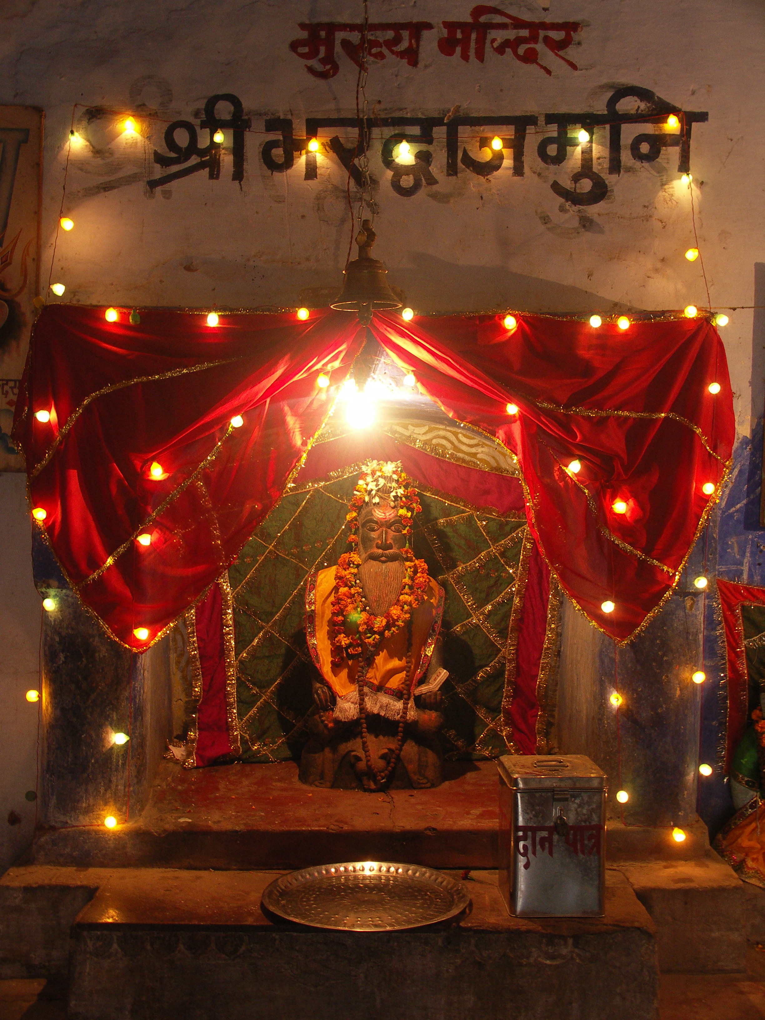 Bharadvaja, a sage (rishi) of the Vedic period was one of the Saptarshis (Seven Great Sages Rishi)